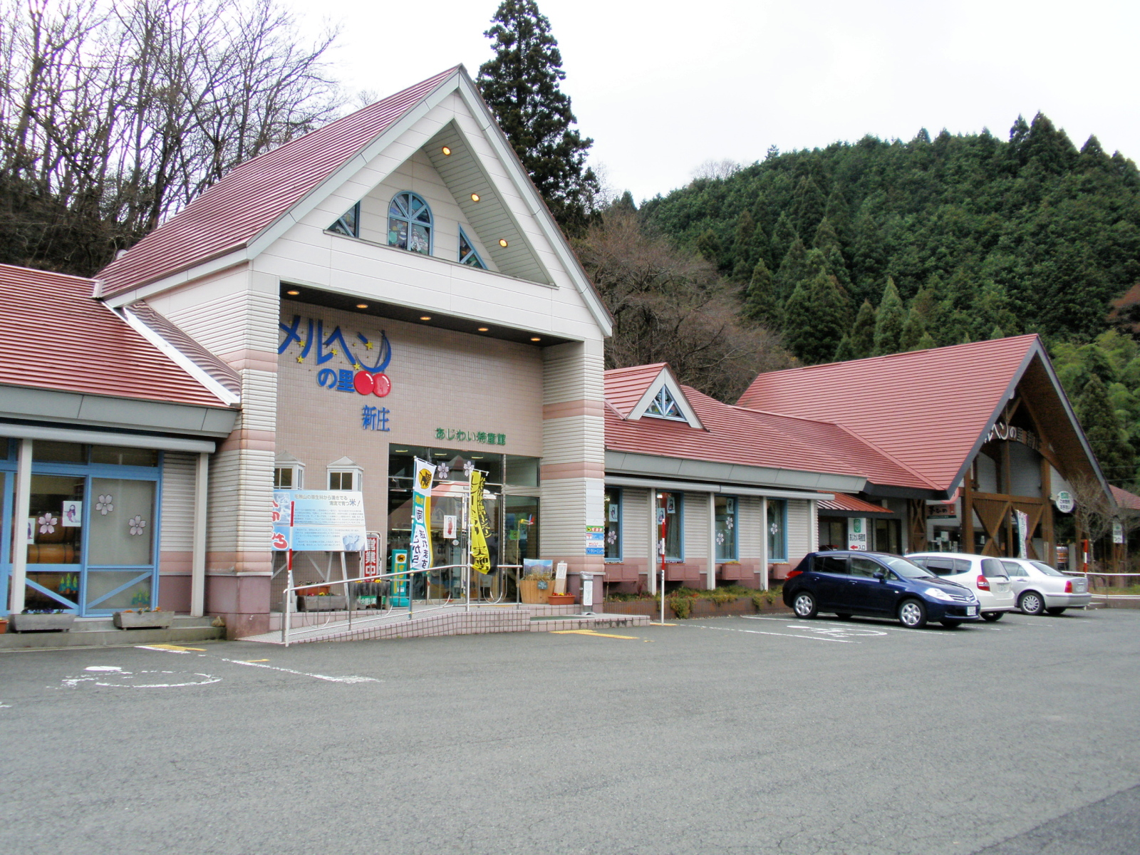 Roadside Station "Marchen No Sato Shinjo" (The village of marchen Shinjō), Shinjō, Okayama.